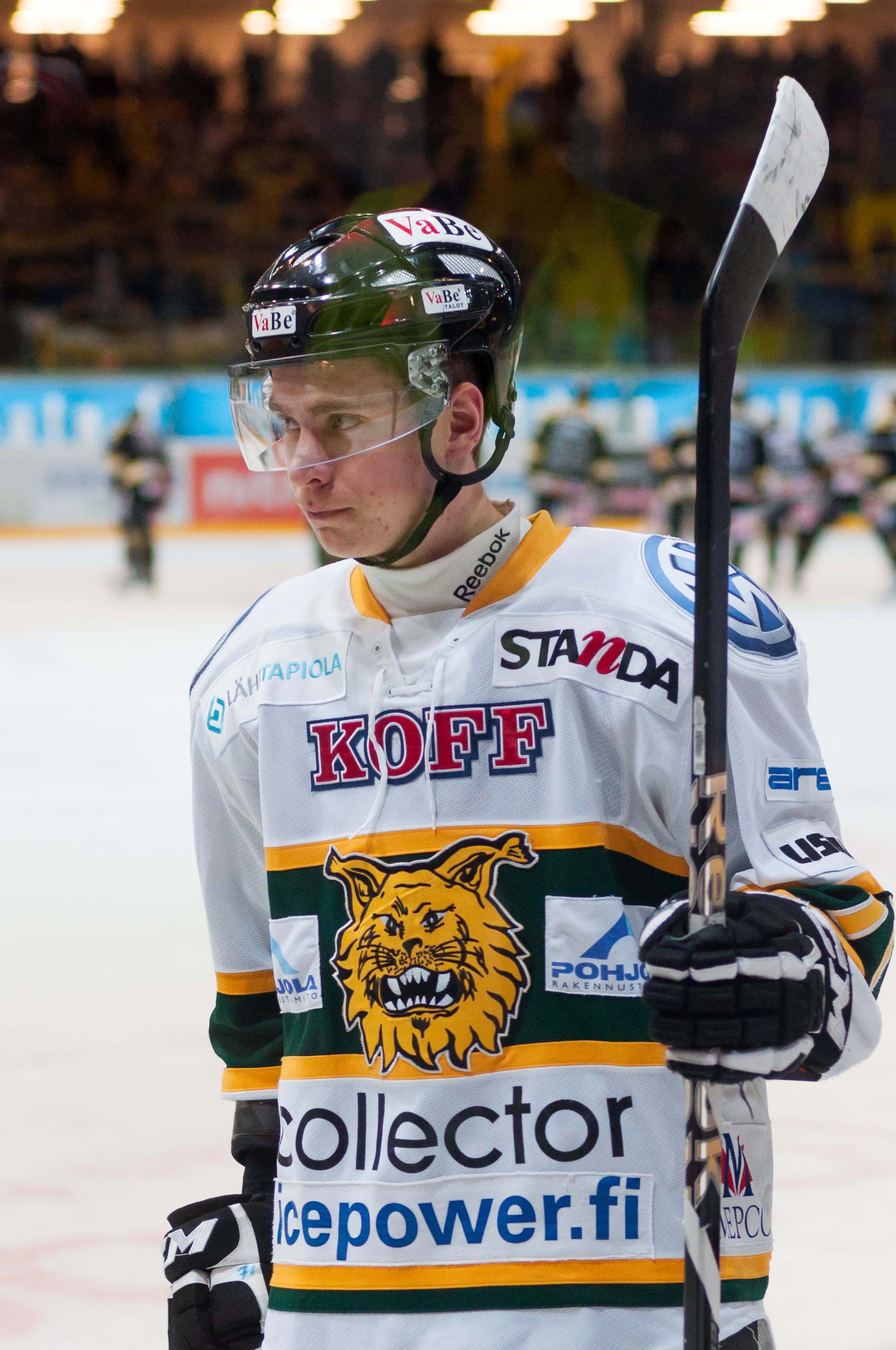 Finnish ice hockey center Michael Keränen of Tampereen Ilves after a game against SaiPa Lappeenranta in Lappeenranta, Finland.